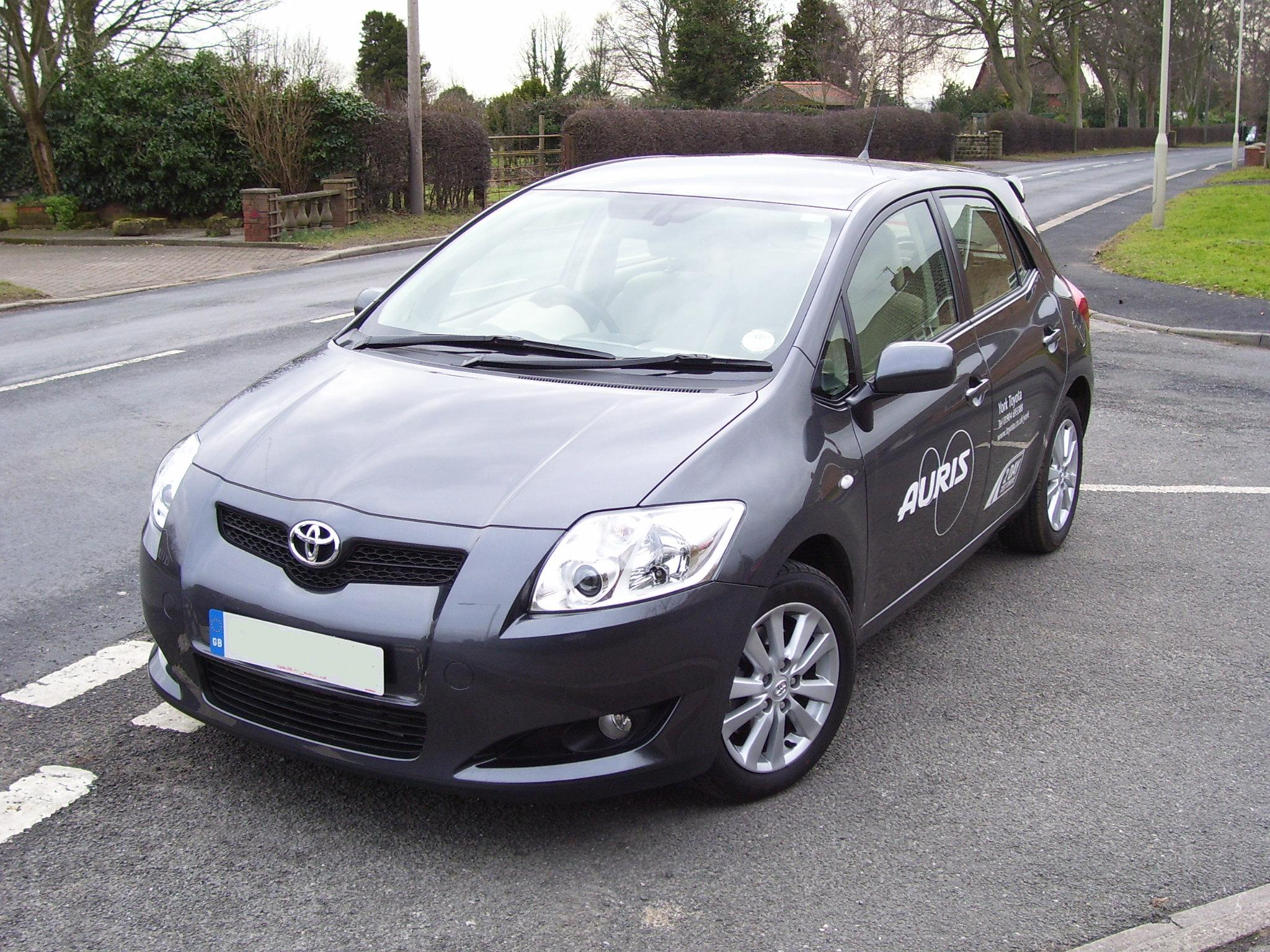 2007 Toyota Auris, photographed in Pickering, North Yorkshire, England.